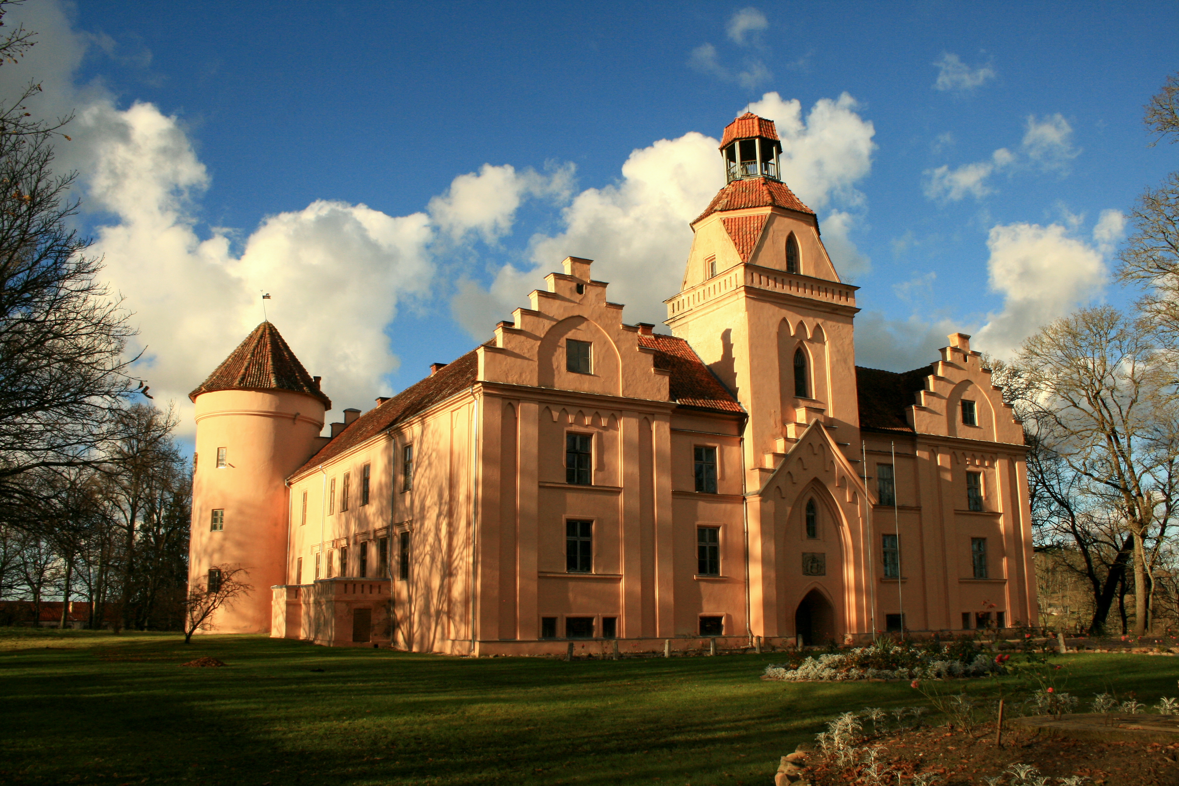 Ēdole CastleLatviešu: Ēdoles pils